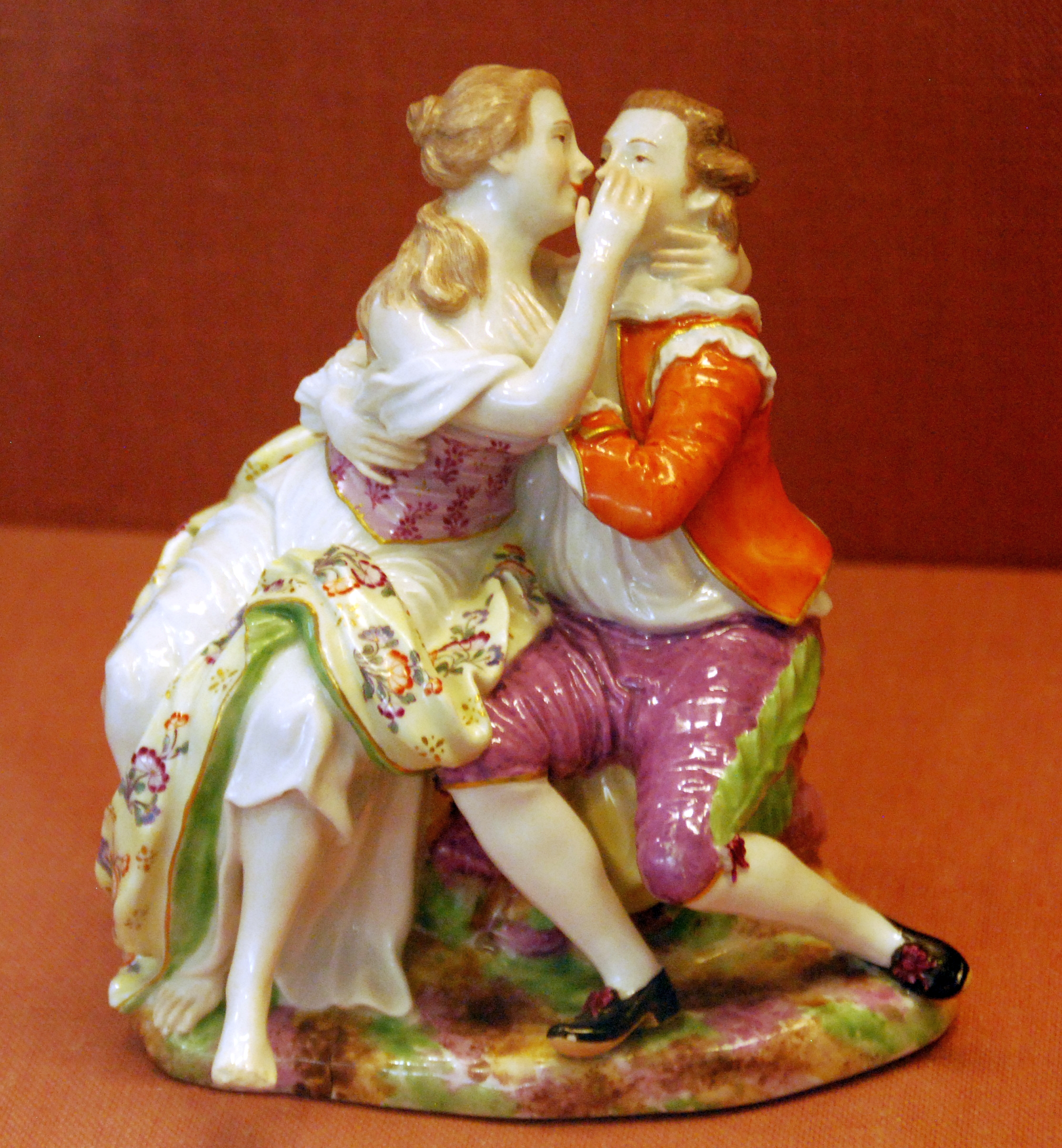 Uploaded Raw material, everybody can work on Names, Categories, Descriptions and so on..